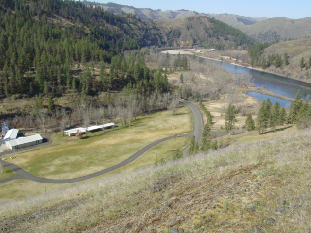 Kooskia National Fish Hatchery, authorized by Congress in August 1961, was established to rear spring chinook salmon for release into the Clearwater River basin. The hatchery is located 1.5 miles southeast of Kooskia, Idaho near the confluence of Clear Creek and the Middle Fork Clearwater River. Kooskia National Fish Hatchery is managed and operated by the Nez Perce Tribe of Idaho for the U.S. Fish & Wildlife Service.Construction of the hatchery was started in 1966. Fish production, begun in 1969, established runs of adult spring chinook salmon returning to Clear Creek. Smolts released from the hatchery return 2-3 years later as 7-20 pound adults. In 2007, the certification of the Snake River Basin Adjudication settlement included transfer of hatchery management to the Nez Perce Tribe, who are responsible for the day-to-day fish production, supporting the goal to raise and release up to 600,000 juvenile spring Chinook salmon annually.